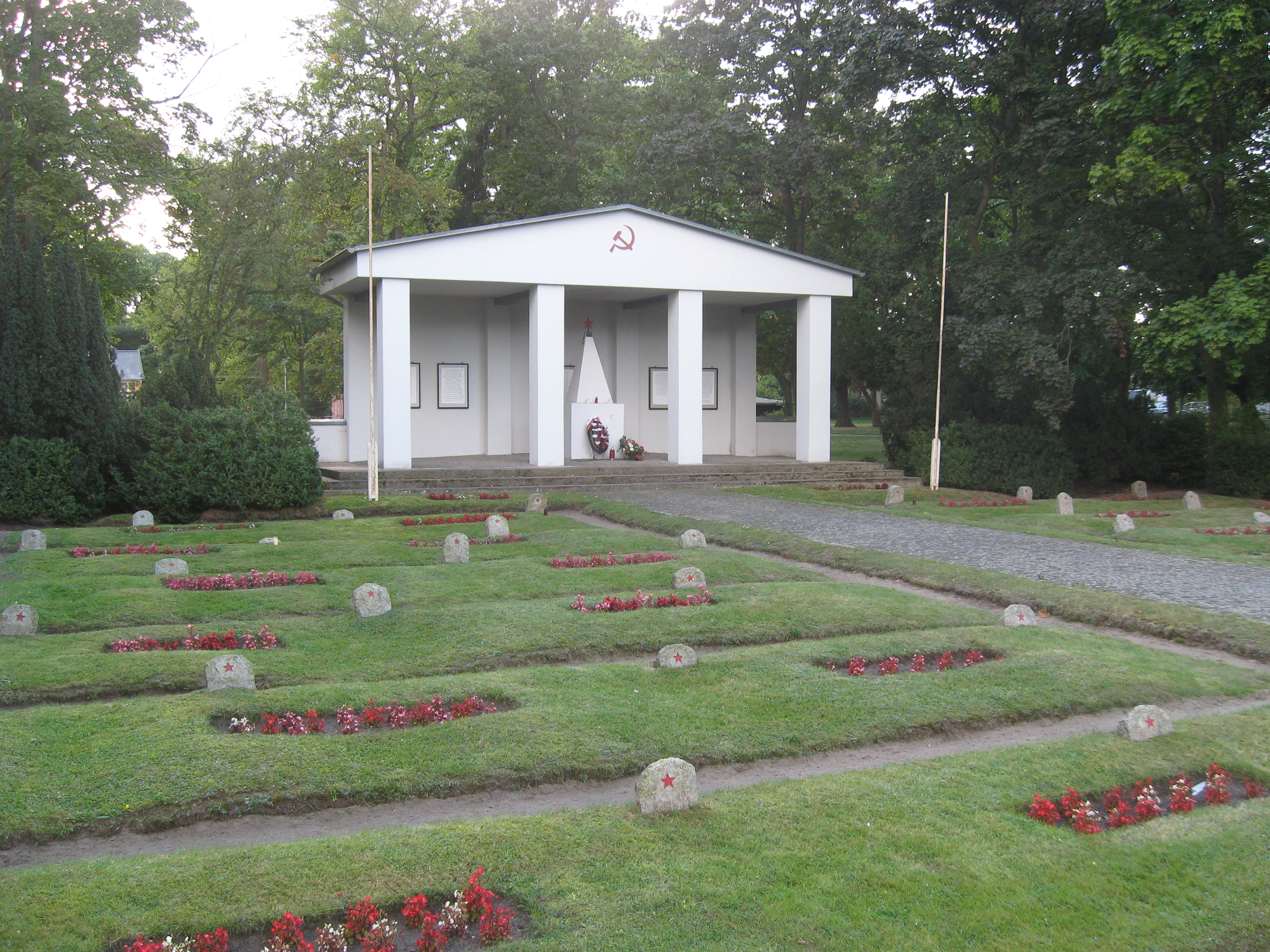 Soviet Military Cemetery in Ahlbeck (Usedom)